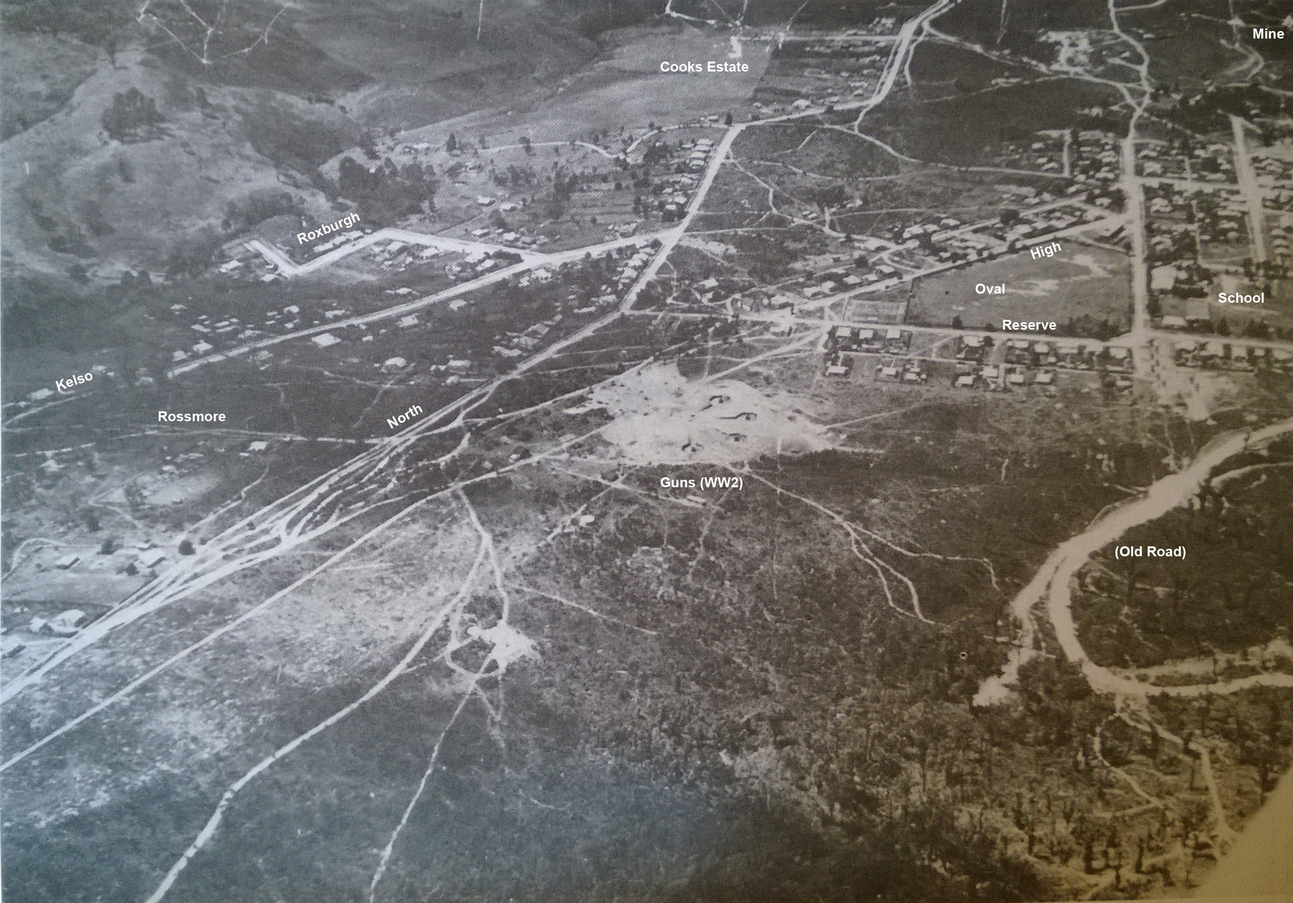 Static 3.7 inch Bofor Gun Turrets at the Brown Coal Mine.